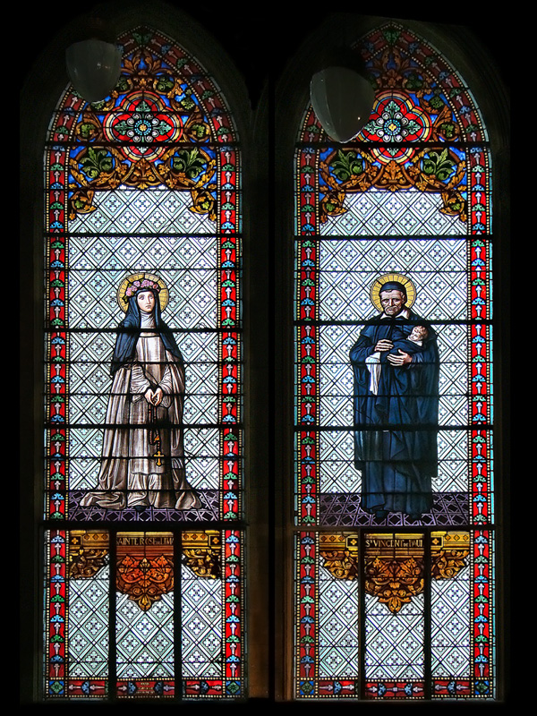 Church of Saint Peter the Apostle, Montreal, Quebec, Canada. Two stained glass windows in the lateral naves, installed around 1883. On the left Saint Rose of Lima, on the right Saint Vincent de Paul.